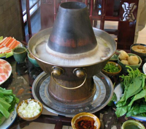 pot on fire in a restaurant in Peking